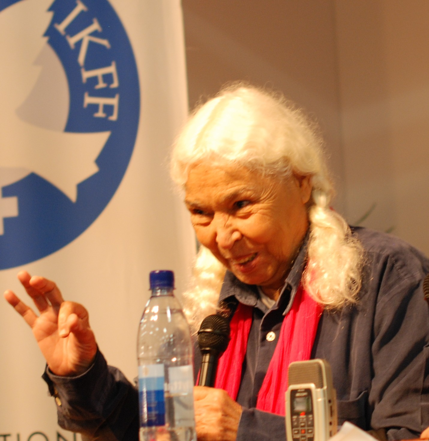 Egyptian writer Nawâl El Saadâwi at the Göteborg Book Fair 2010